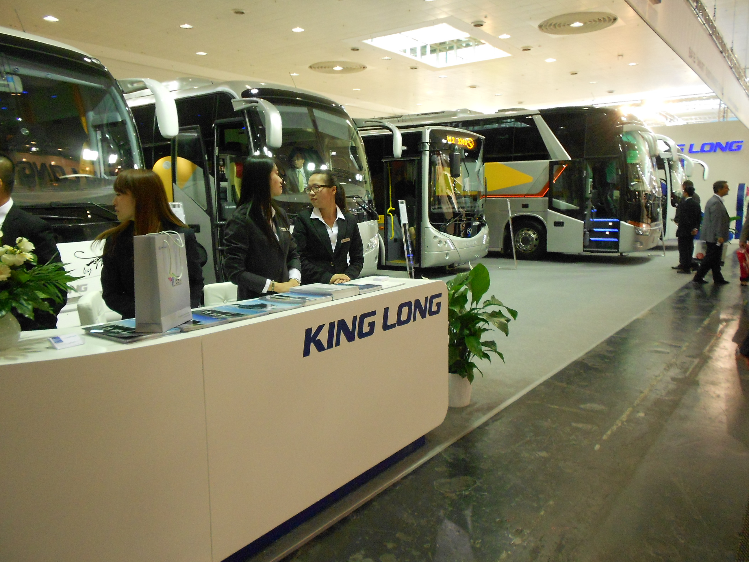 Several King Long buses built 2012. On exhibition IAA 2012 in Hanover, Germany.